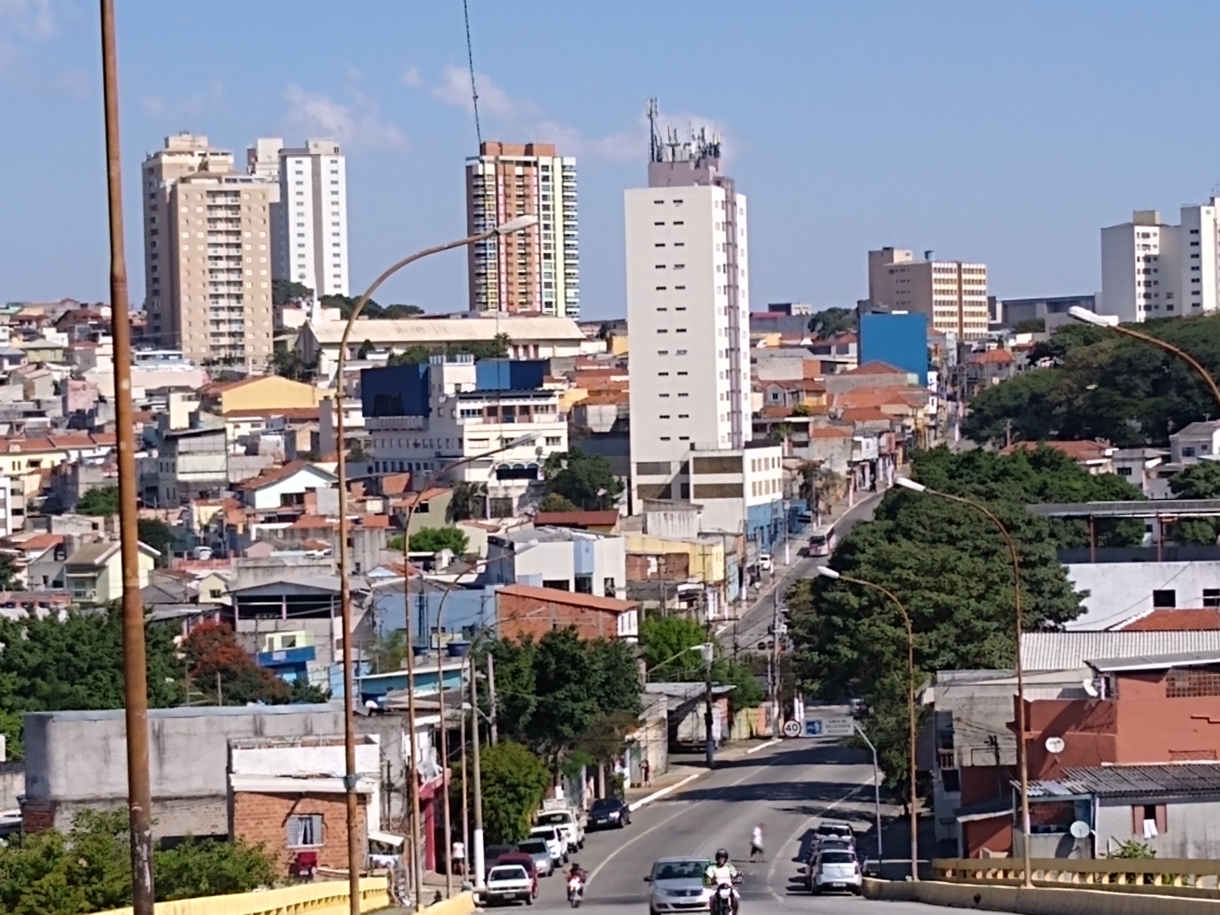 Penha de França